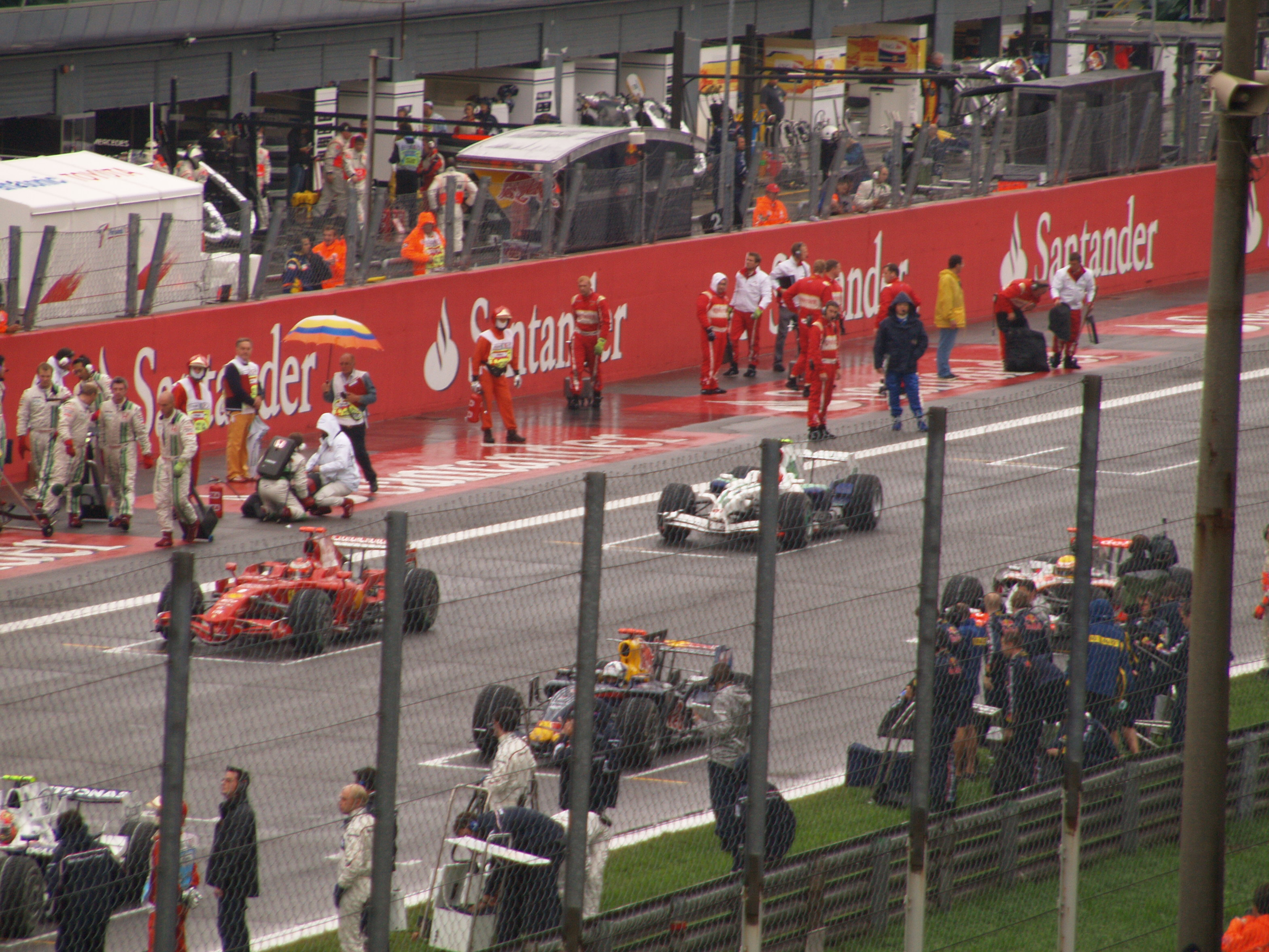 2008 Italian Grand Prix, Start, P13 - Coulthard, P14 - Räikkönen, P15 - Hamilton, P16 - Barrichello